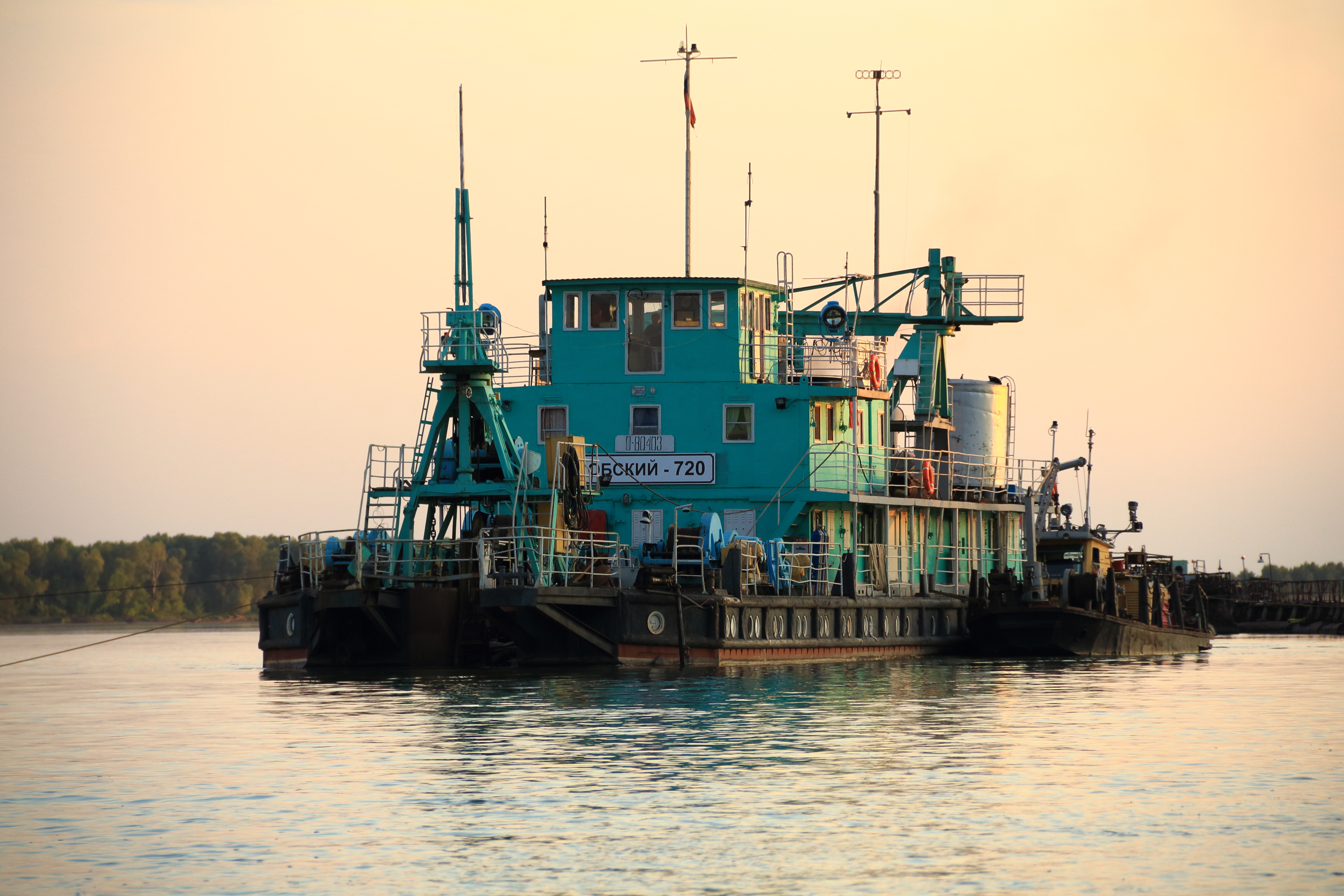 Suction dredging ship Obskiy 720 project 36-107, built in 1963 by the shipyard České Loděnice Praha, Czechoslovakia. Belongs Barnaul area waterways and navigation of the Ob basin state management Rosmorrechflot. Location shooting - the Ob river near the Akutiha village. Bystroistoksky District, Altai Krai.